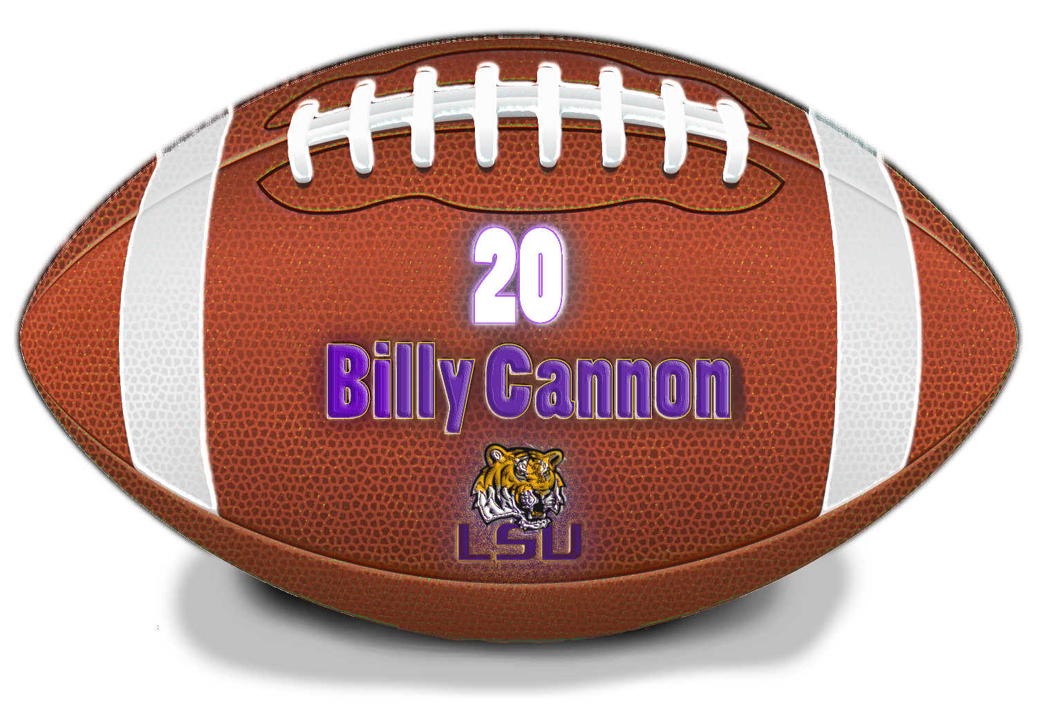 My Own Art Work useing PaintShop Pro X3